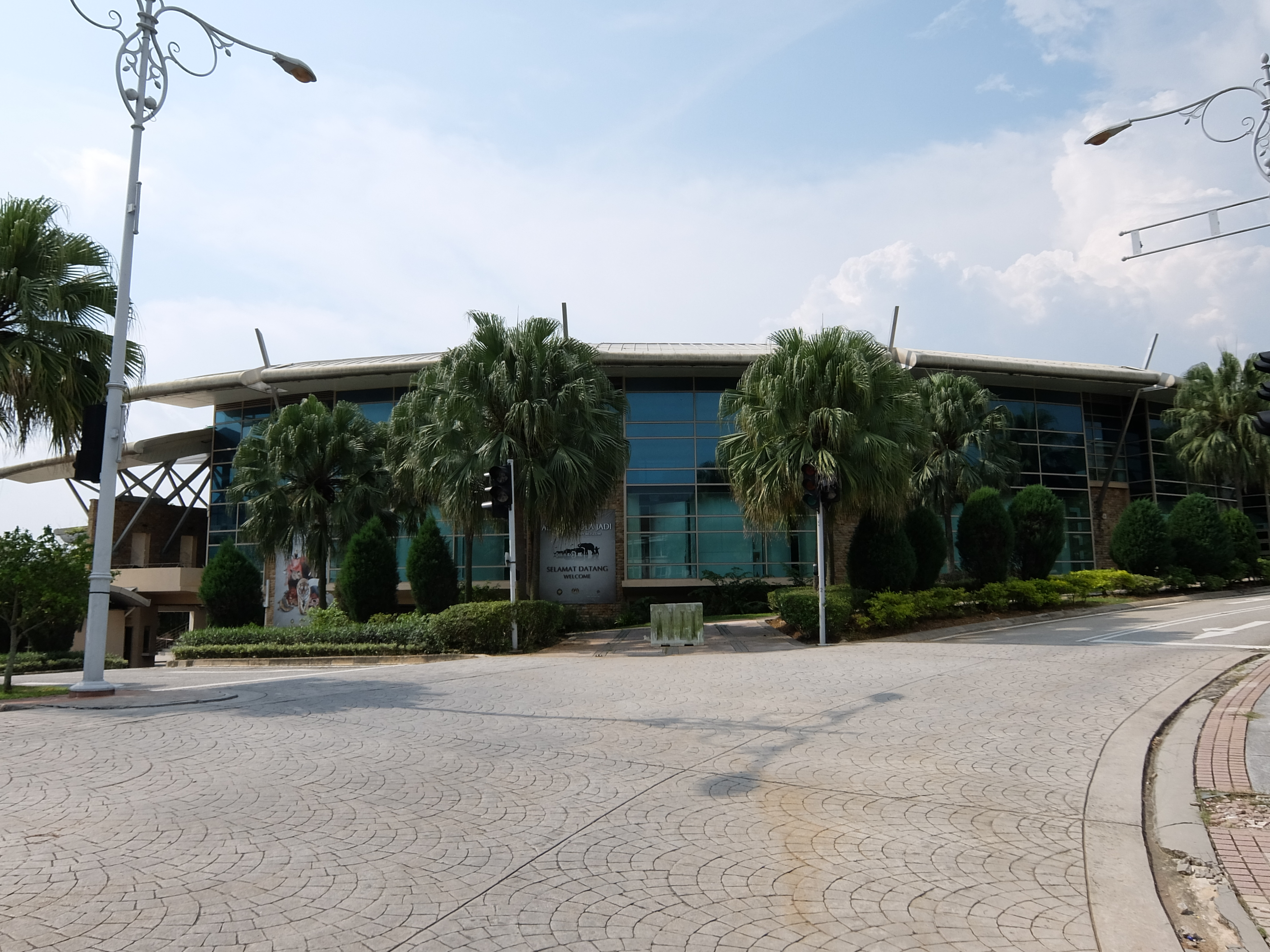 Natural History Museum, Presint 15, Putrajaya, Malaysia